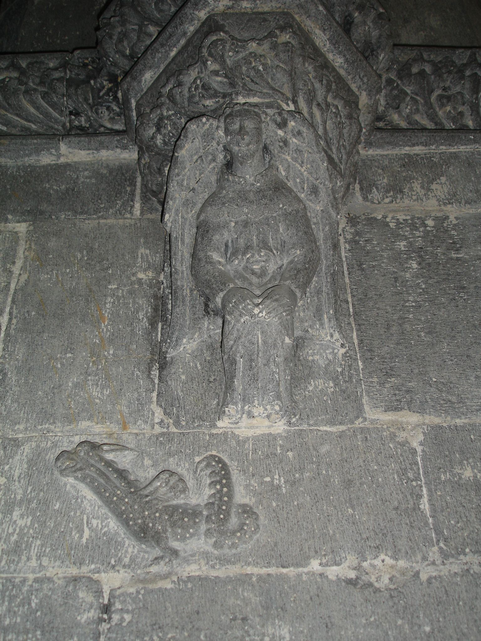 Clonfert Cathedral, Co. Galway, Ireland: Detail aus dem Inneren: Drache